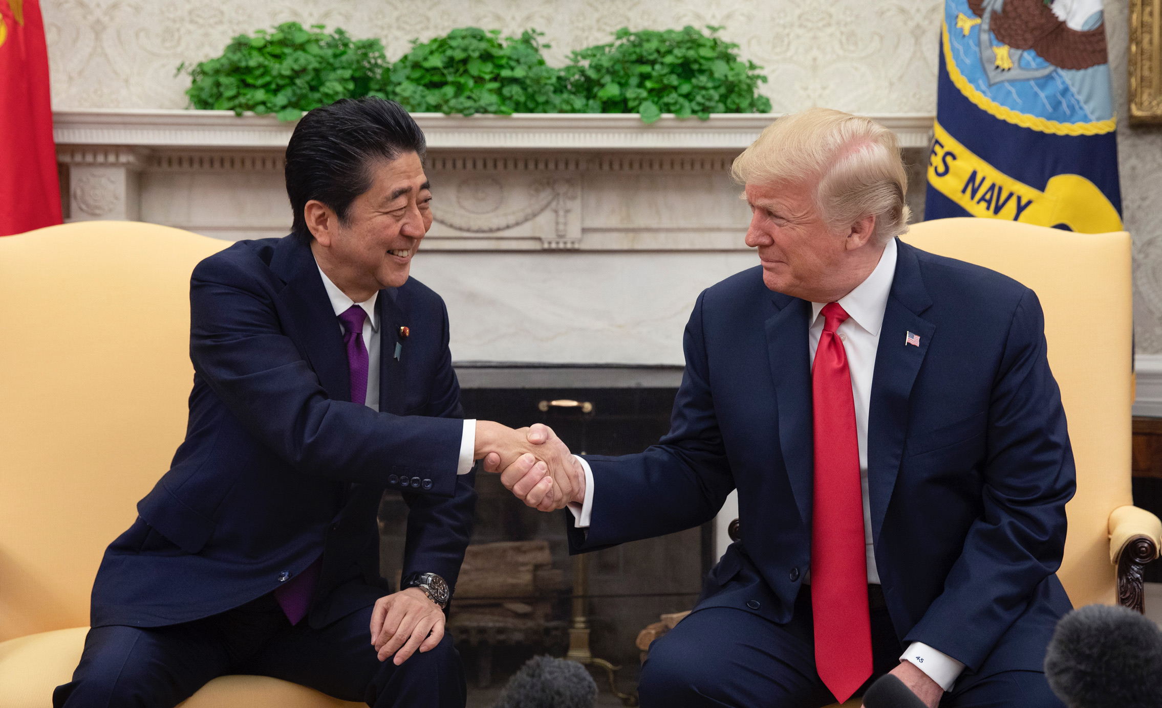 Donald Trump shaking hands with Shinzō Abe in the Oval Office at the White House. June 7, 2018.